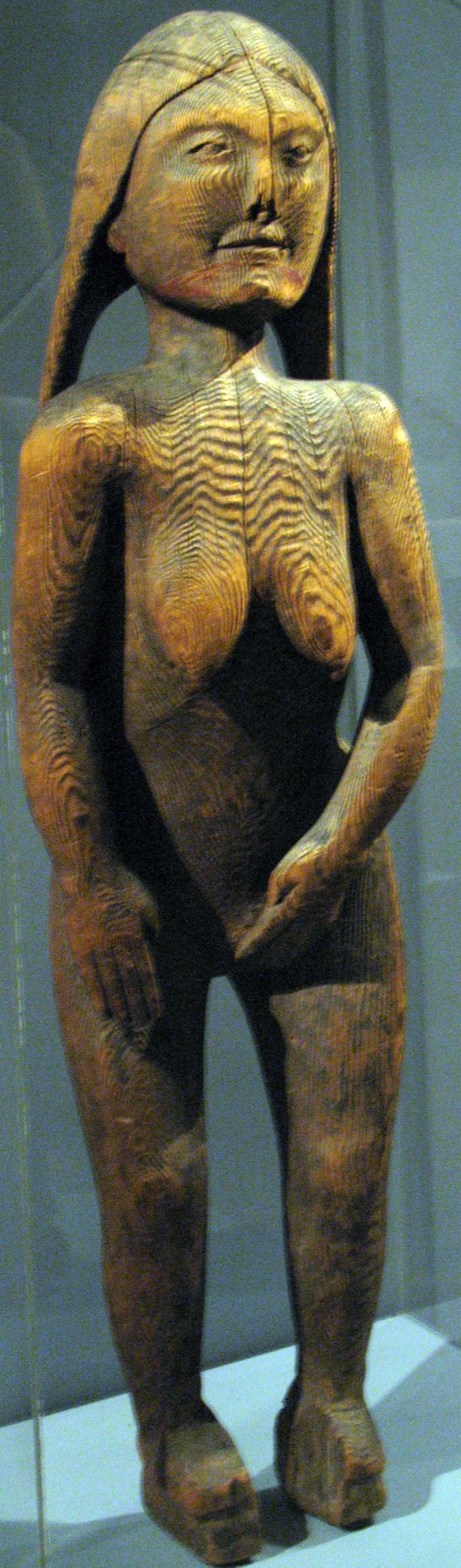 Kwakwaka'wakw figure from British Columbia, 19th century